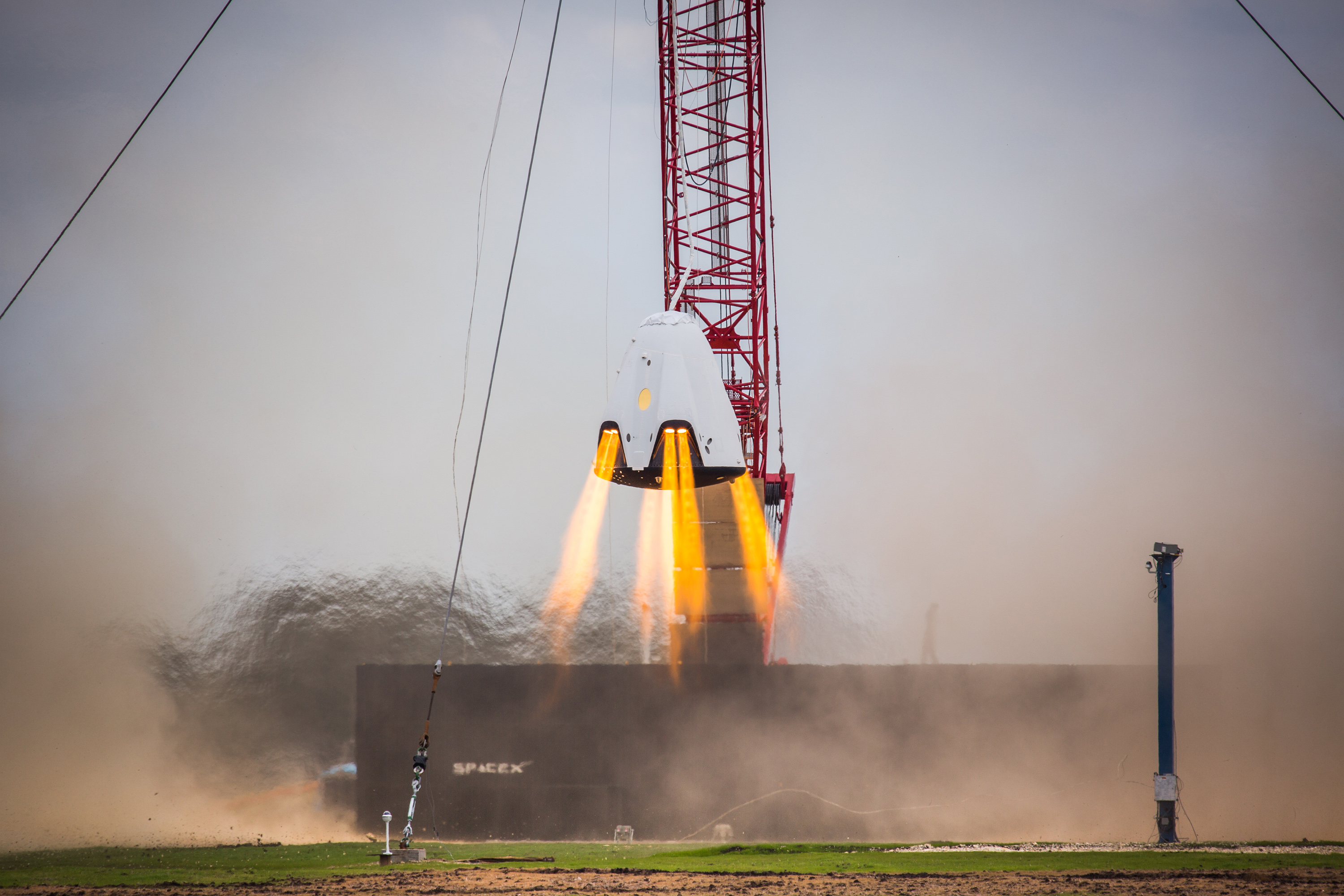 Propulsive hover tests of DragonFly test vehicle in SpaceX's rocket-development facility in McGregor, Texas.